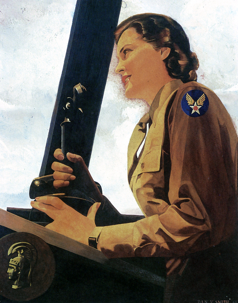 Title of Artwork: WAC Air Controller Artist: Dan V. Smith Year Painted: 1943 Subject: World War II